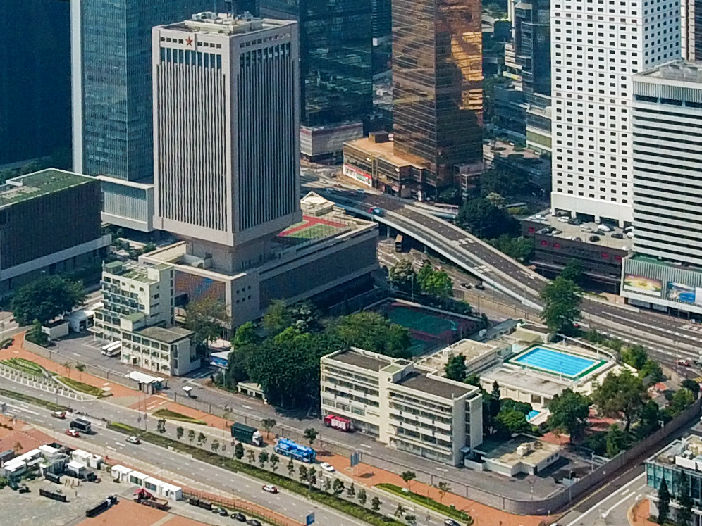 Central Barrack, Hong Kong